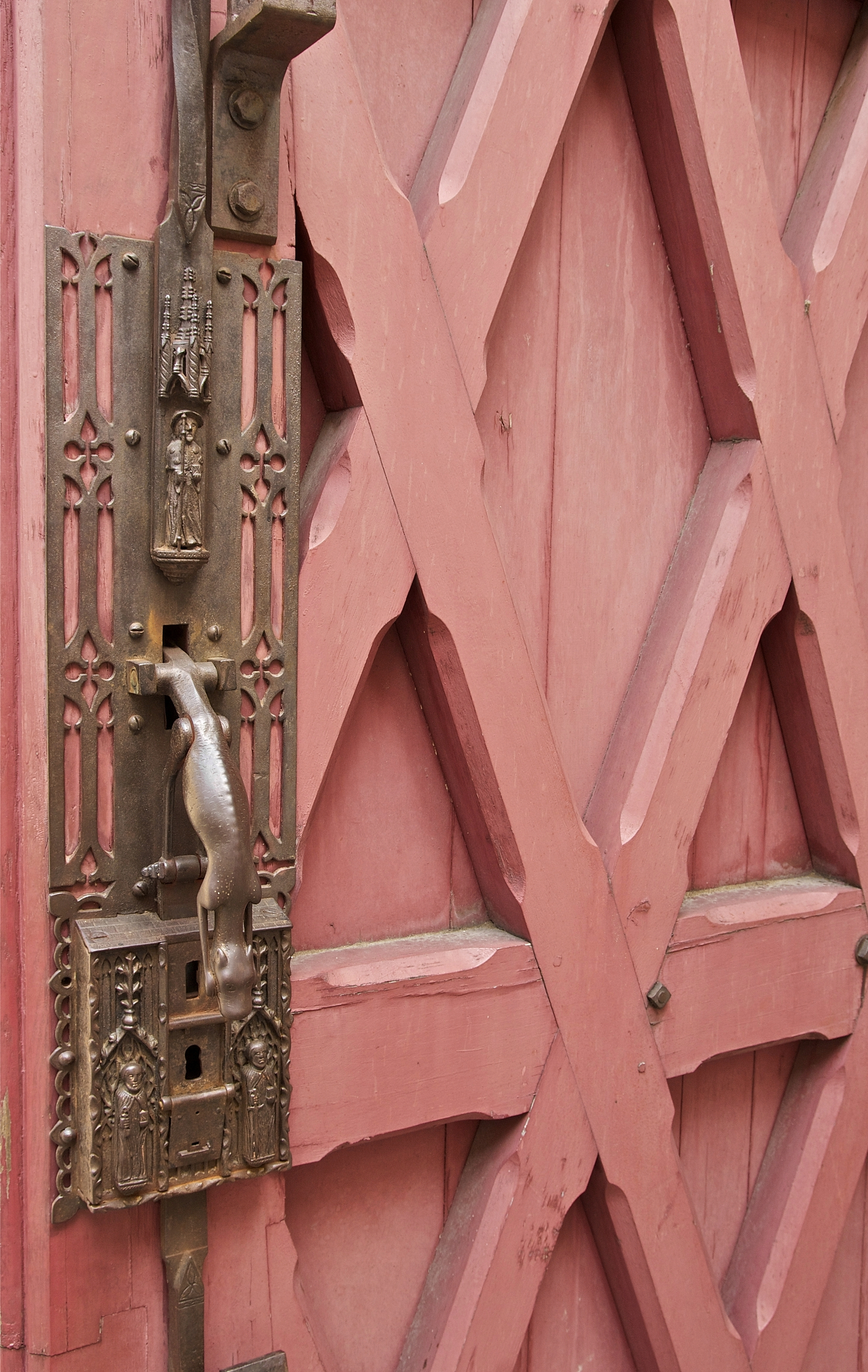 Detail of the lock of the main door of Hôtel de Cluny in Paris, France, by Pierre Boulanger, (1813-1891), blacksmith.